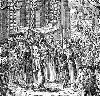 Jewish-wedding Chuppah cropped image